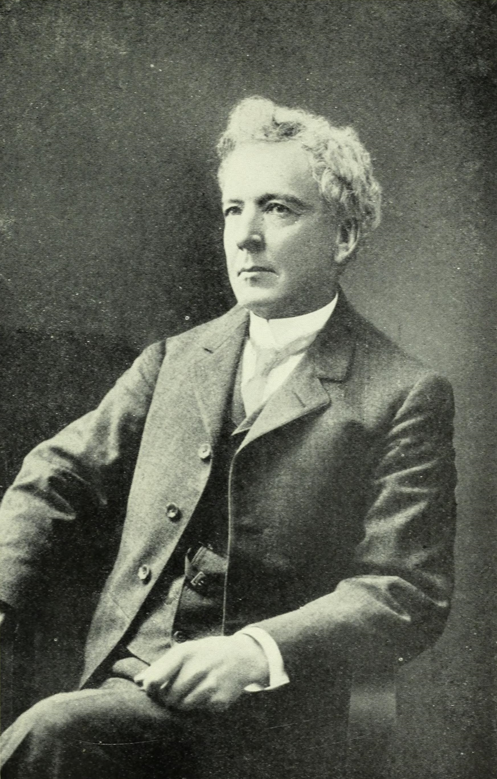 Picture of Luther Burbank